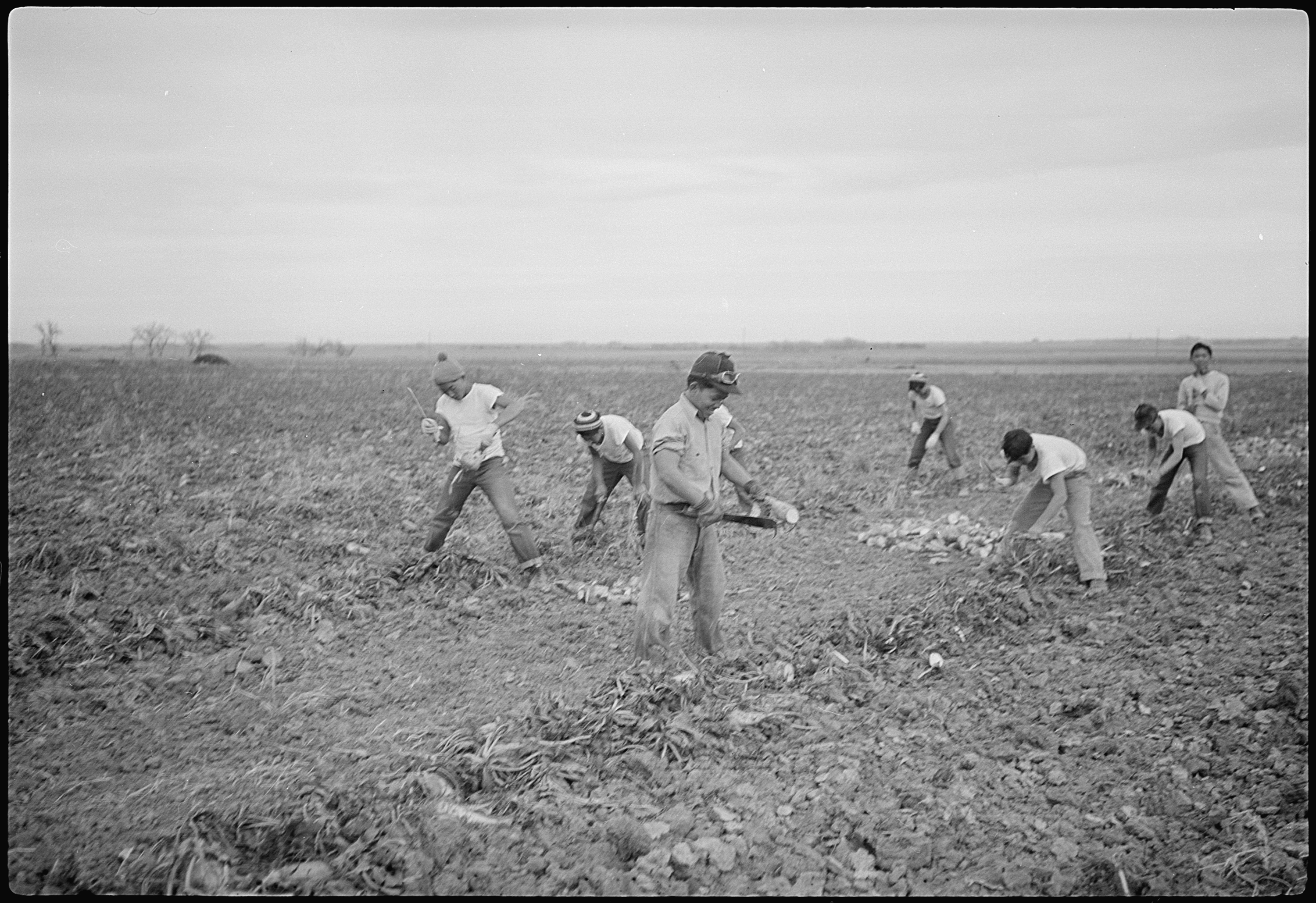 Scope and content: The full caption for this photograph reads: Granada Relocation Center, Amache, Colorado. Farm of Ed. Paulish, 9 miles southeast of Granada, Colorado. A group of high-school students topping beets.